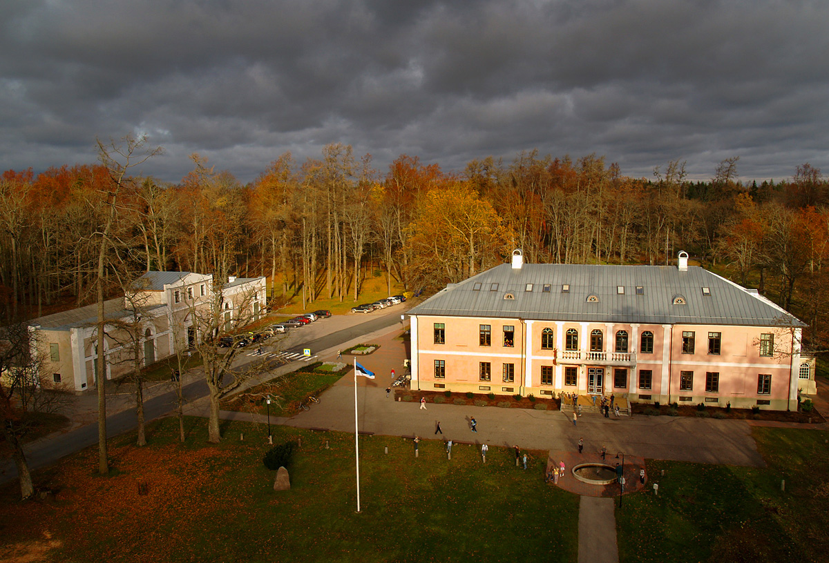 Tõstamaa manour